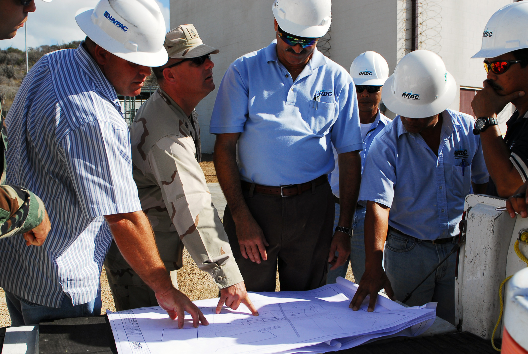 GUANTANAMO BAY, Cuba (April 29, 2009) Navy chief petty officer Jason Marino, with the Joint Task Force Guantanamo engineers, meets with civilian contractors to review plans for an upcoming project at JTF Guantanamo Camp 6. The JTF Guantanamo engineers maintain and construct facilities throughout the task force. JTF Guantanamo provides support to the Office of Military Commissions, to law enforcement and to war crimes investigations. (U.S. Army photo by Sgt. Michael Baltz/Released)